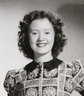 Actress Marcia Mae Jones in 1938